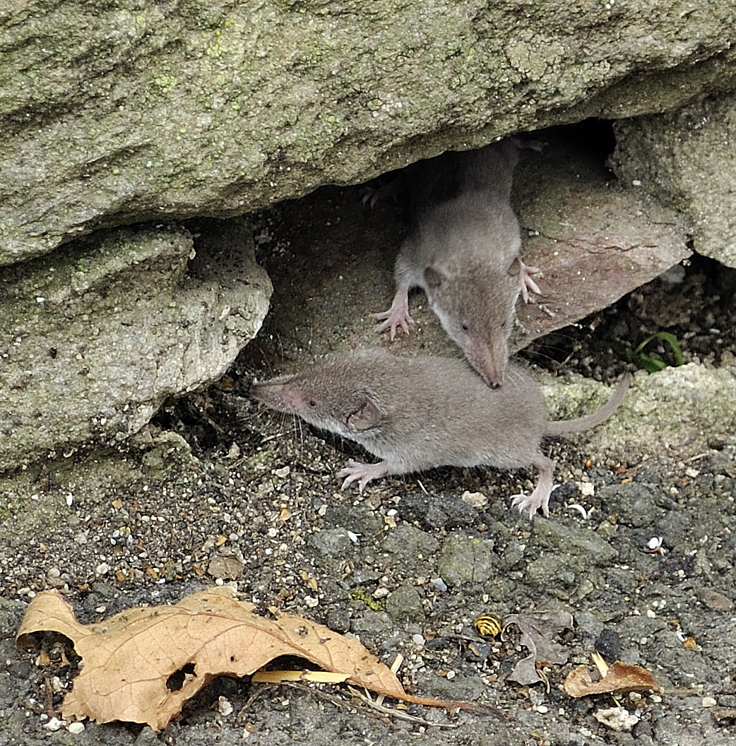 Greater White-toothed Shrew (Crocidura russula), Picture taken for Wikipedia:Wiki Loves Monuments Mittelhessen.